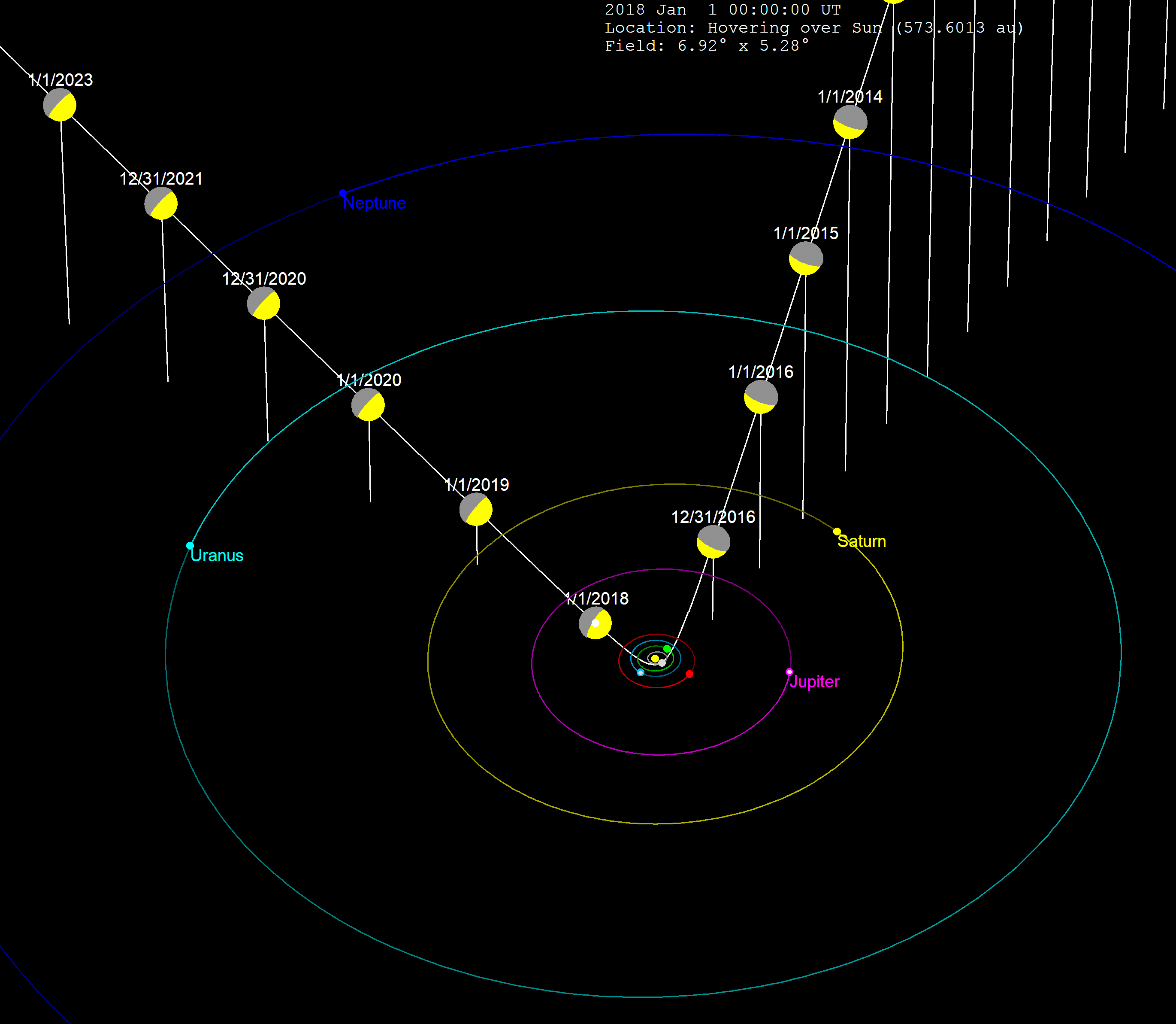 Oumuamua